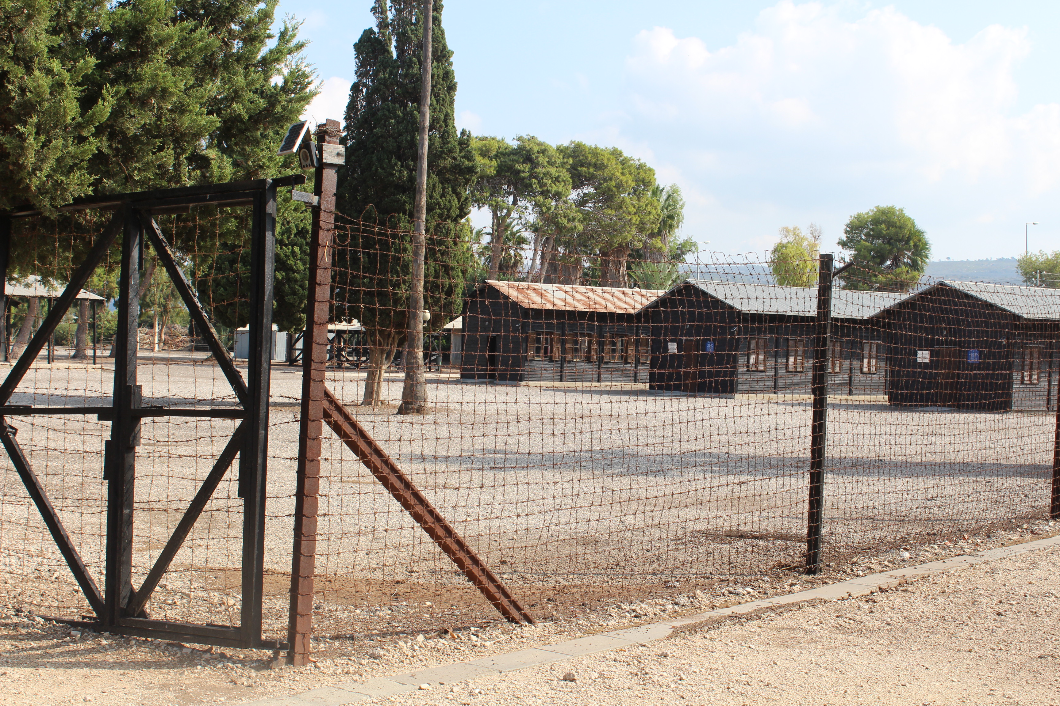 Atlit detainee camp, Israel The site's ID in Wiki Loves Monuments photographic competition is 4-0053-100